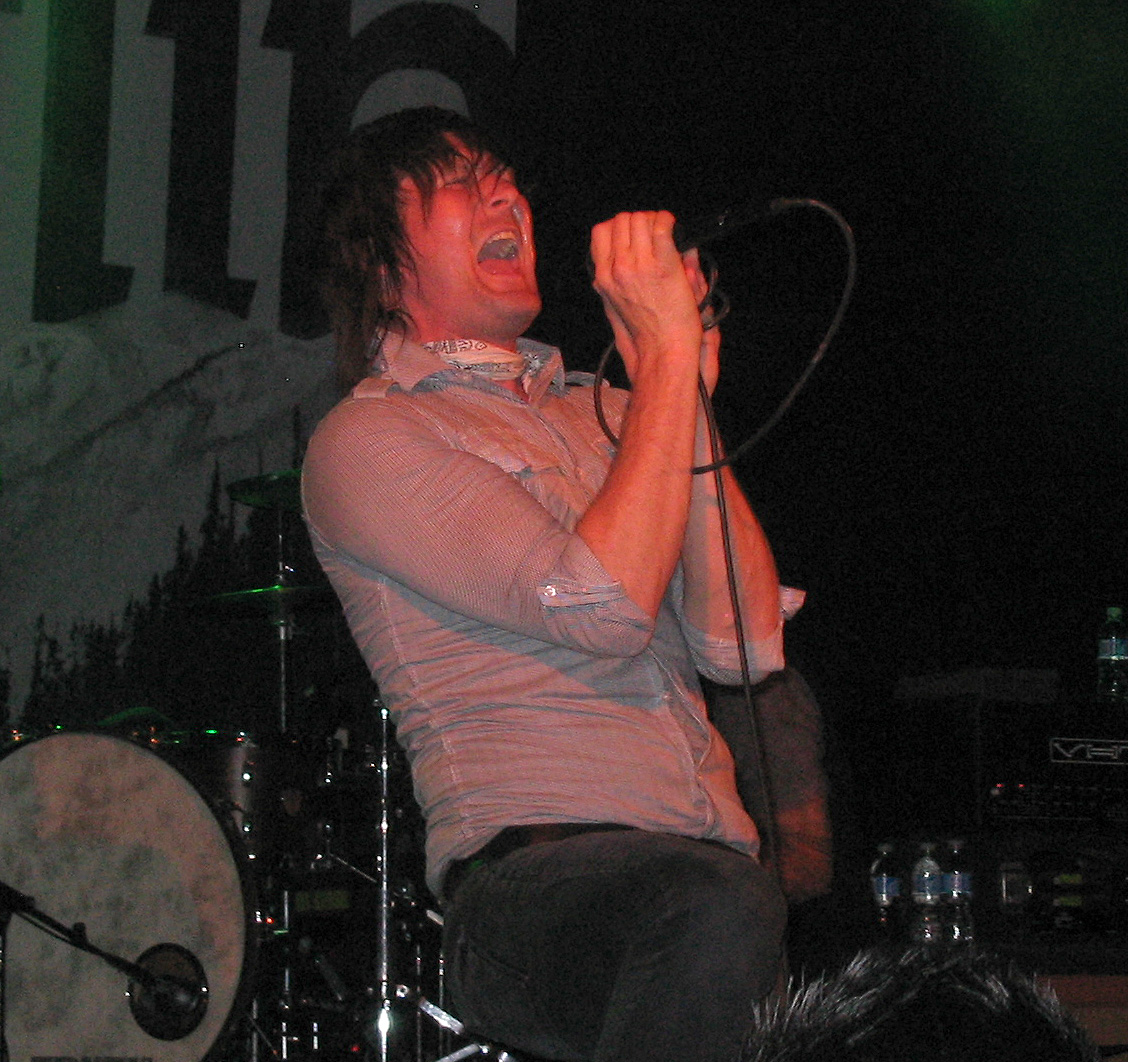 Anberlin and Anchor & Braille's Stephen Christian performs at Commodore Ballroom, 2009-05-30.